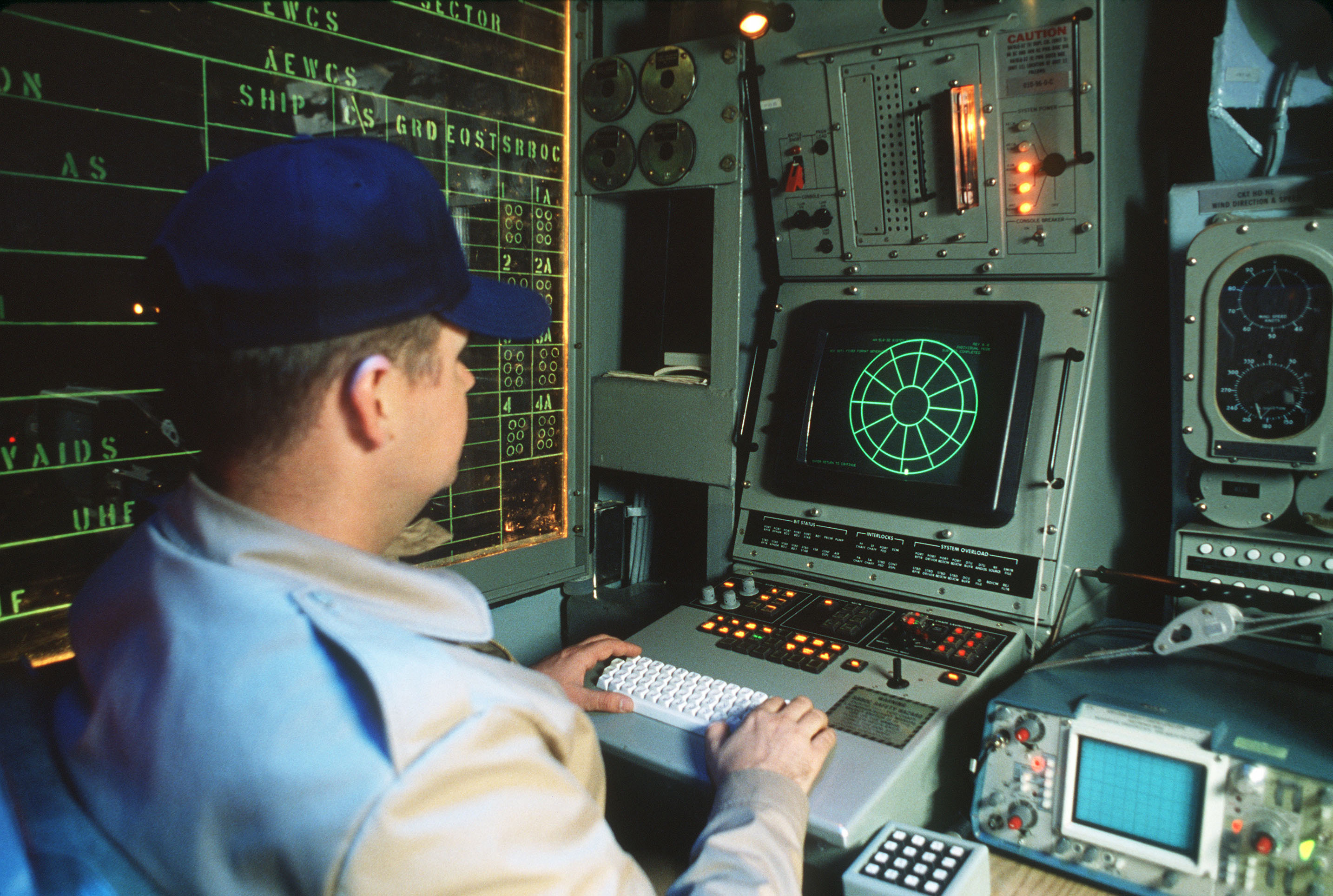 A crew member monitors the SLQ-32 radar warning system console aboard the battleship USS IOWA (BB 61).